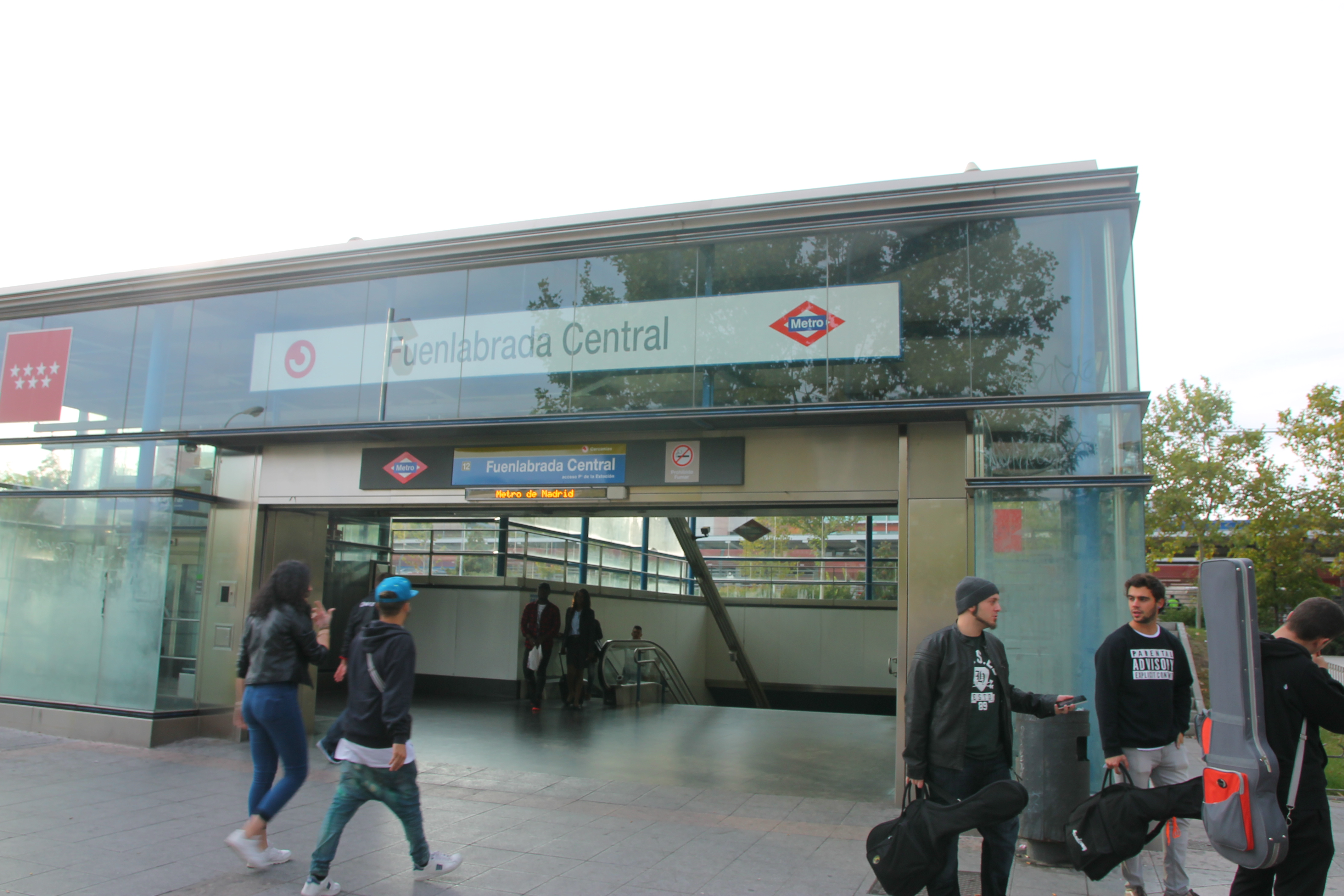 Fuenlabrada Central metro station, line 12, Madrid, entrance